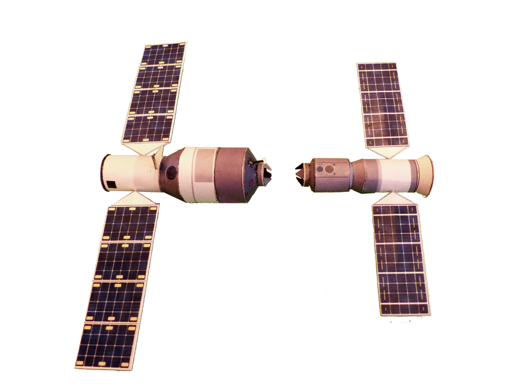 1:144 paper model of the Tiangong 2 and Shenzhou 11 Chinese spacecraft